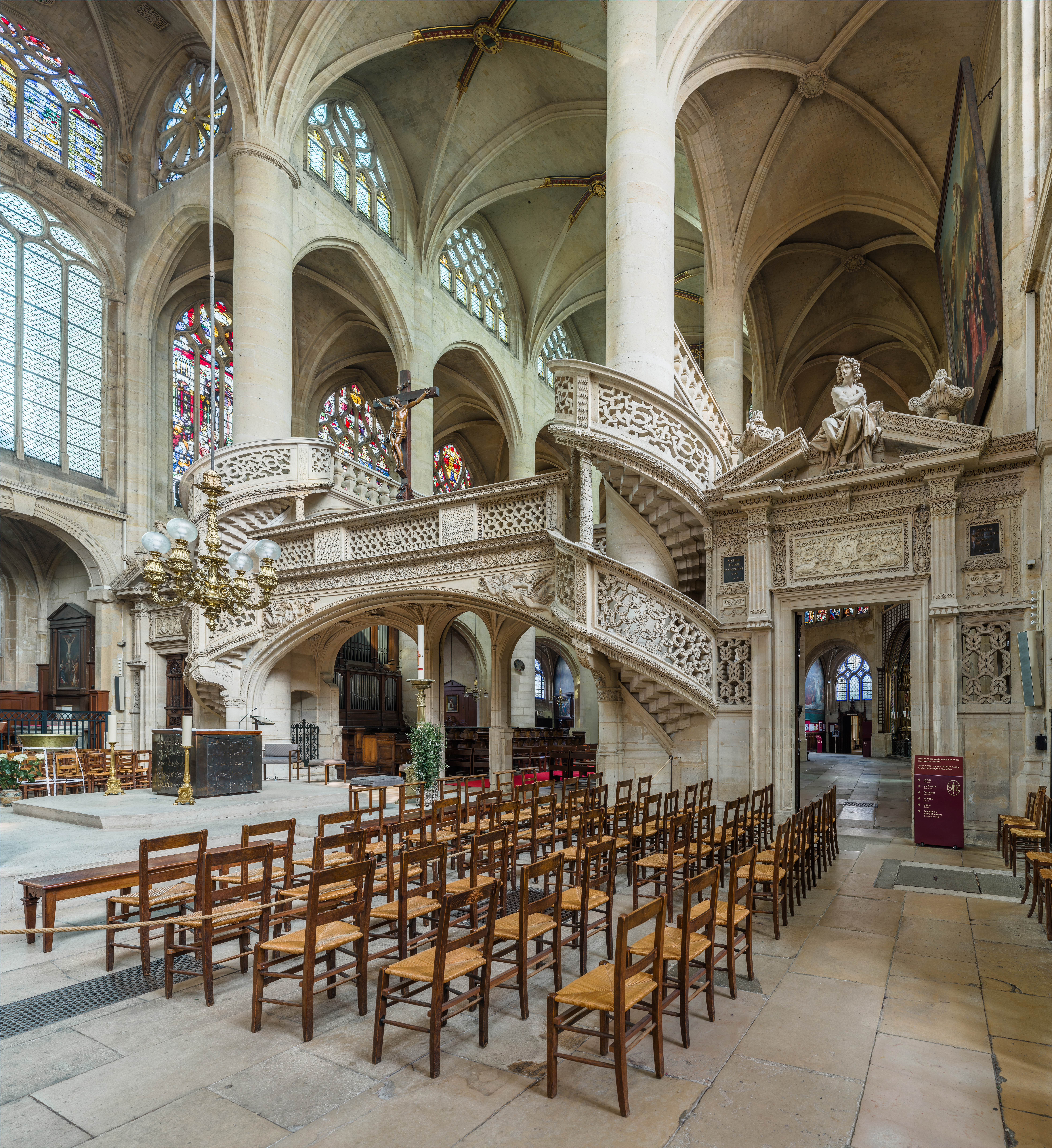 The interior of St-Etienne-du-Mont in Paris, France.